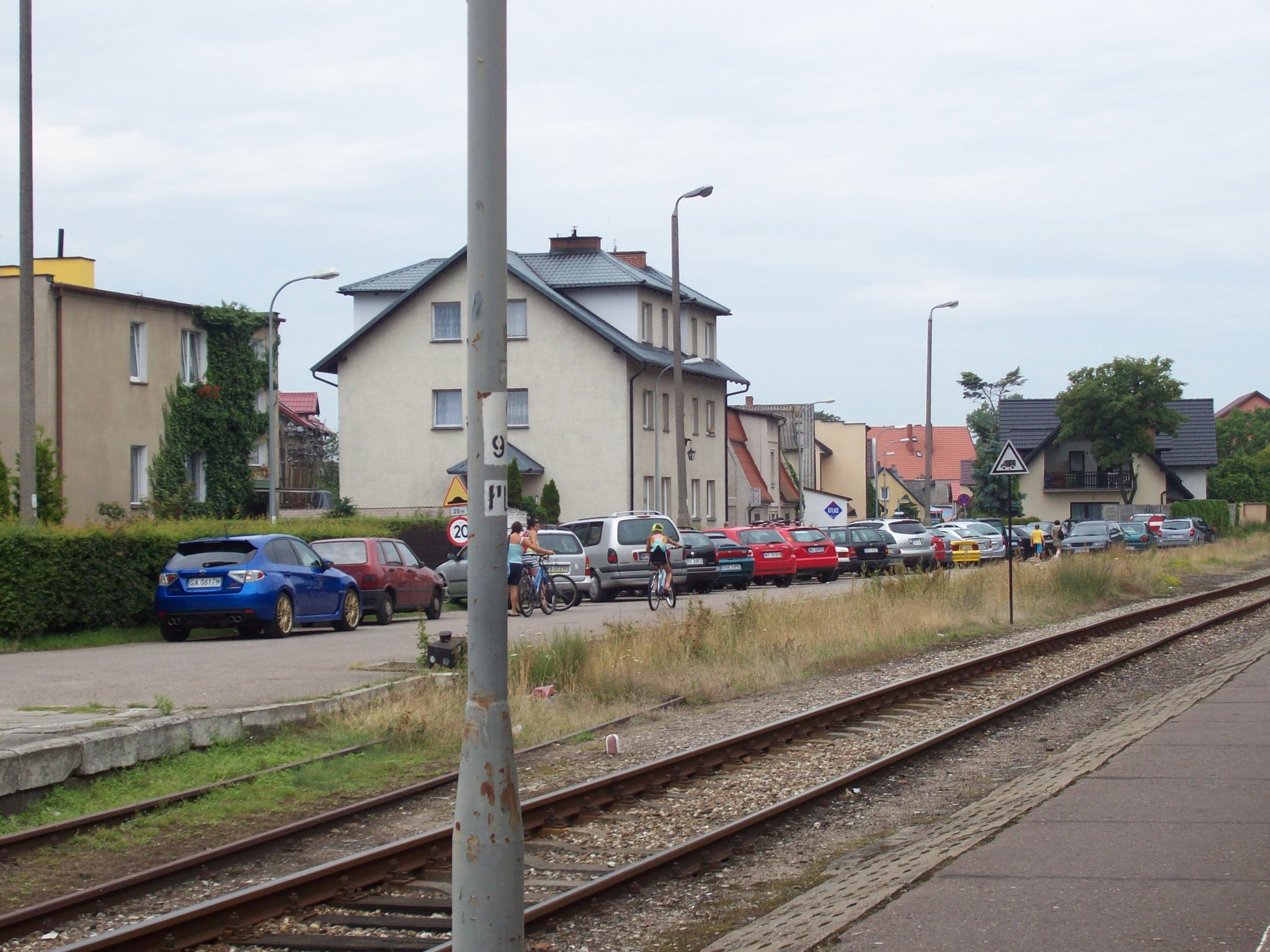 Jastarnia (Poland) - view from the train station